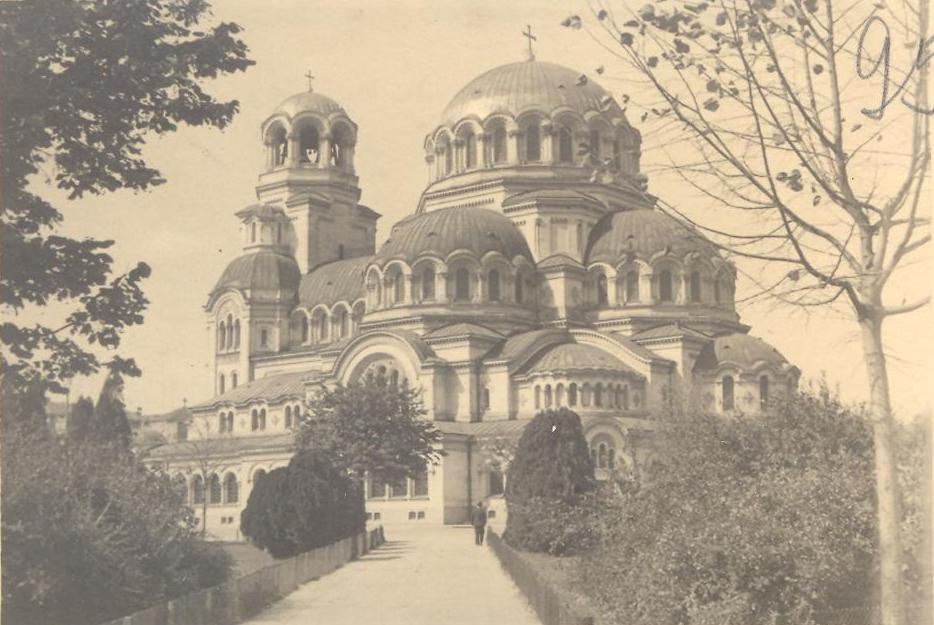 Alexander Nevsky Cathedral, Sofia.